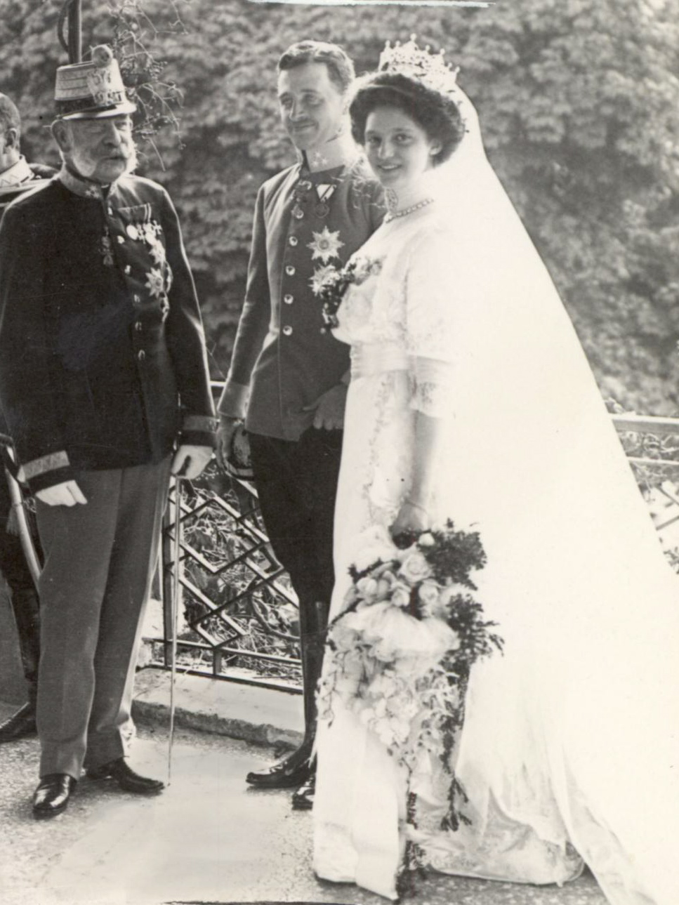 Wedding of Archduke Charles of Austria and Princess Zita of Bourbon-Parma in Schwarzau Palace.